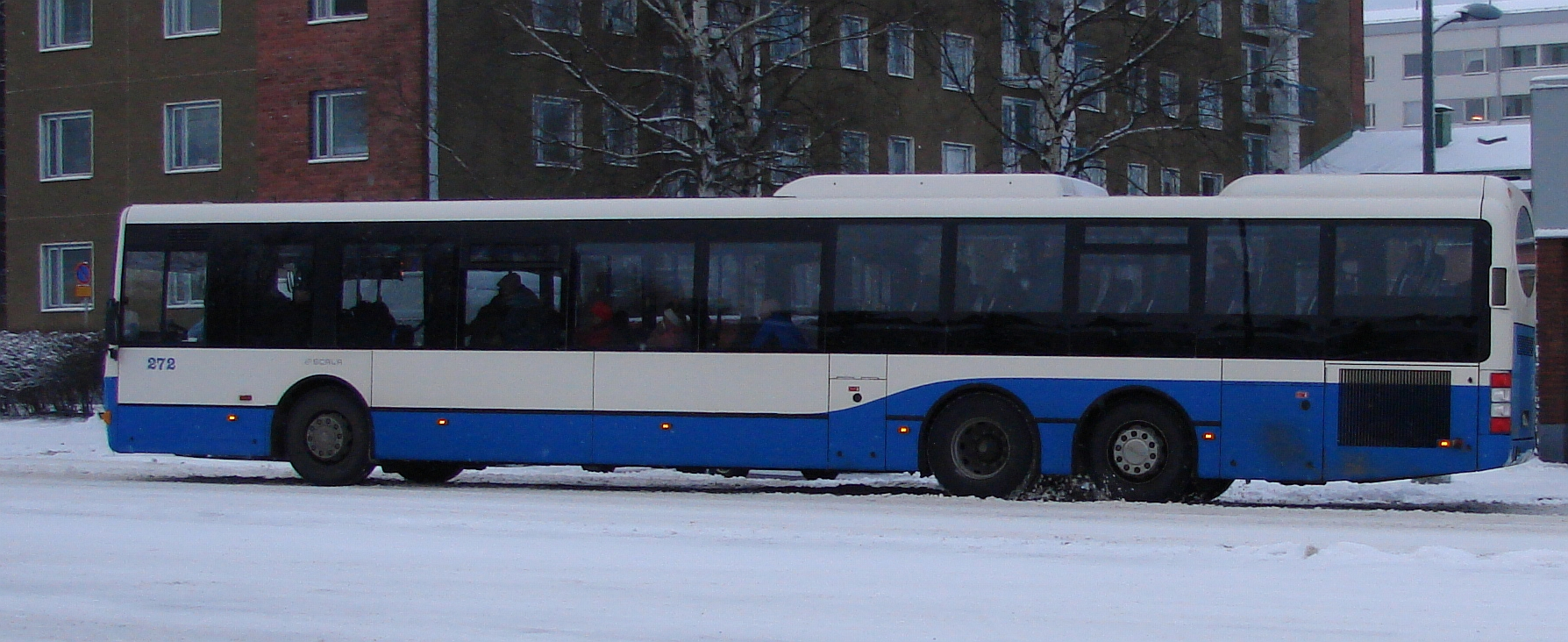 Bus in Tampere, Finland